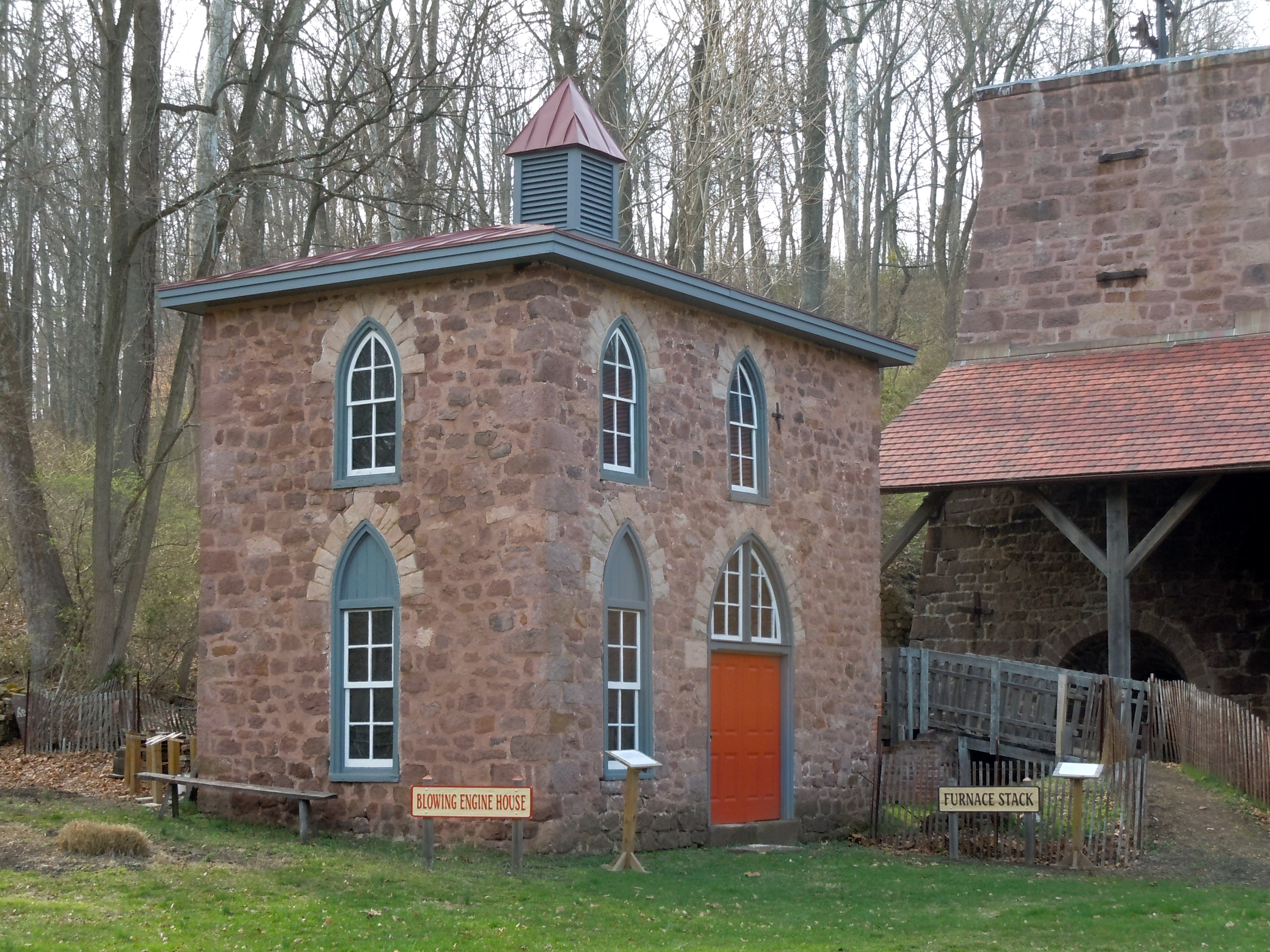 Blowing Engine House in Joanna Furnace Complex on the NRHP since April 23, 1980. North of Morgantown on Pennsylvania Route 10 in Robeson Township, Berks County, Pennsylvania. 19th century iron furnace similar to nearby Hopewell National historic site.